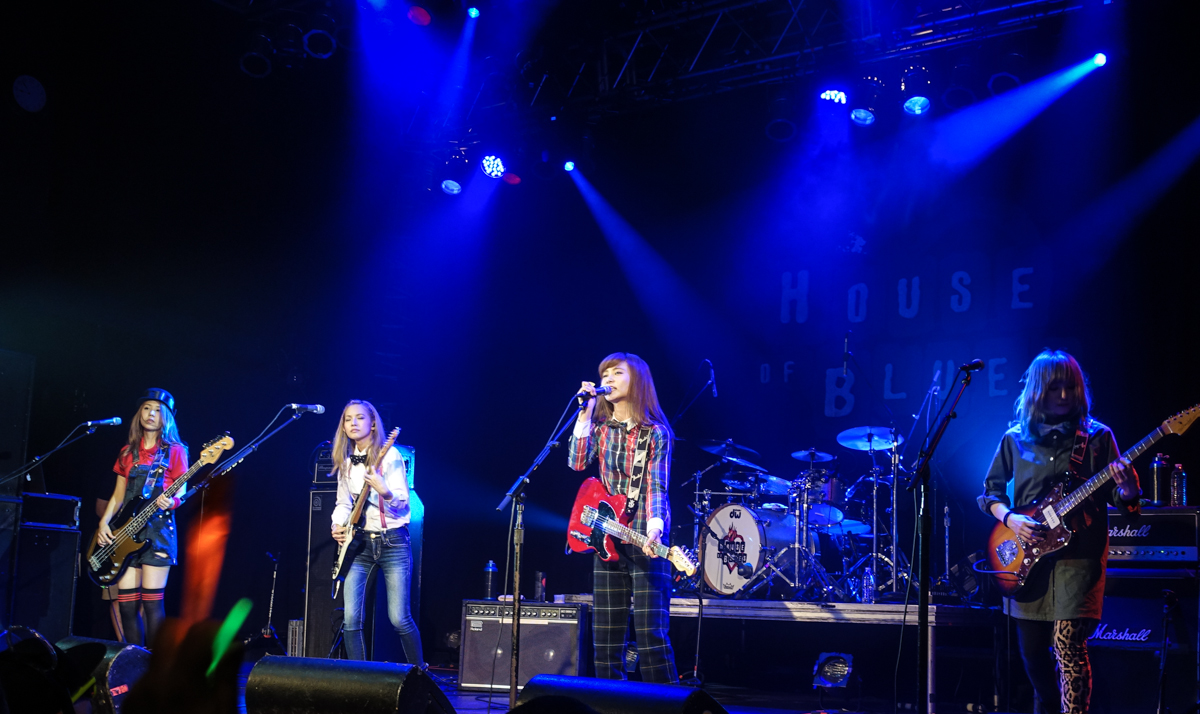 SCANDAL